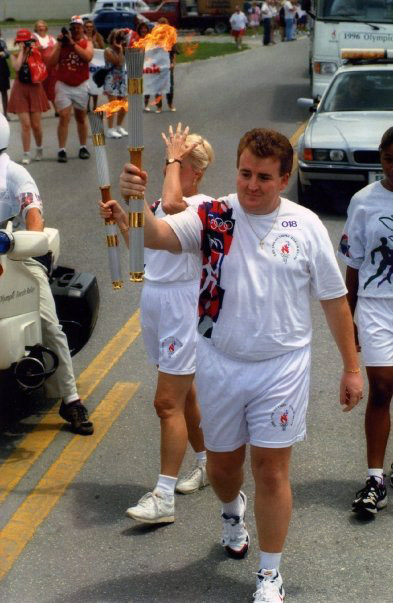 William P. Rader of Tampa, Florida carrying the torch prior lighting the 4th of July Fireworks celebration